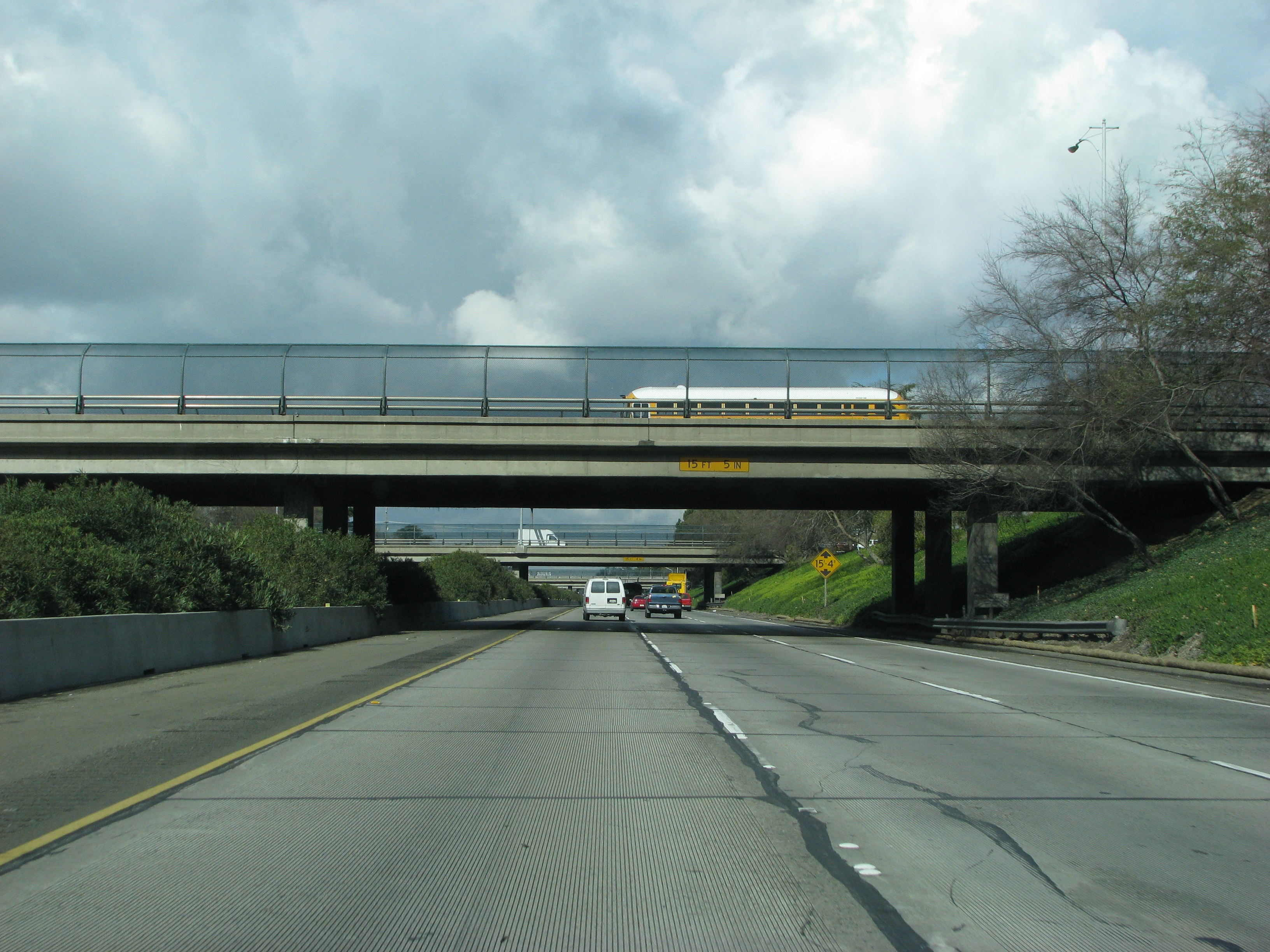 Ca-99 (northbound) near Modesto, California (2).